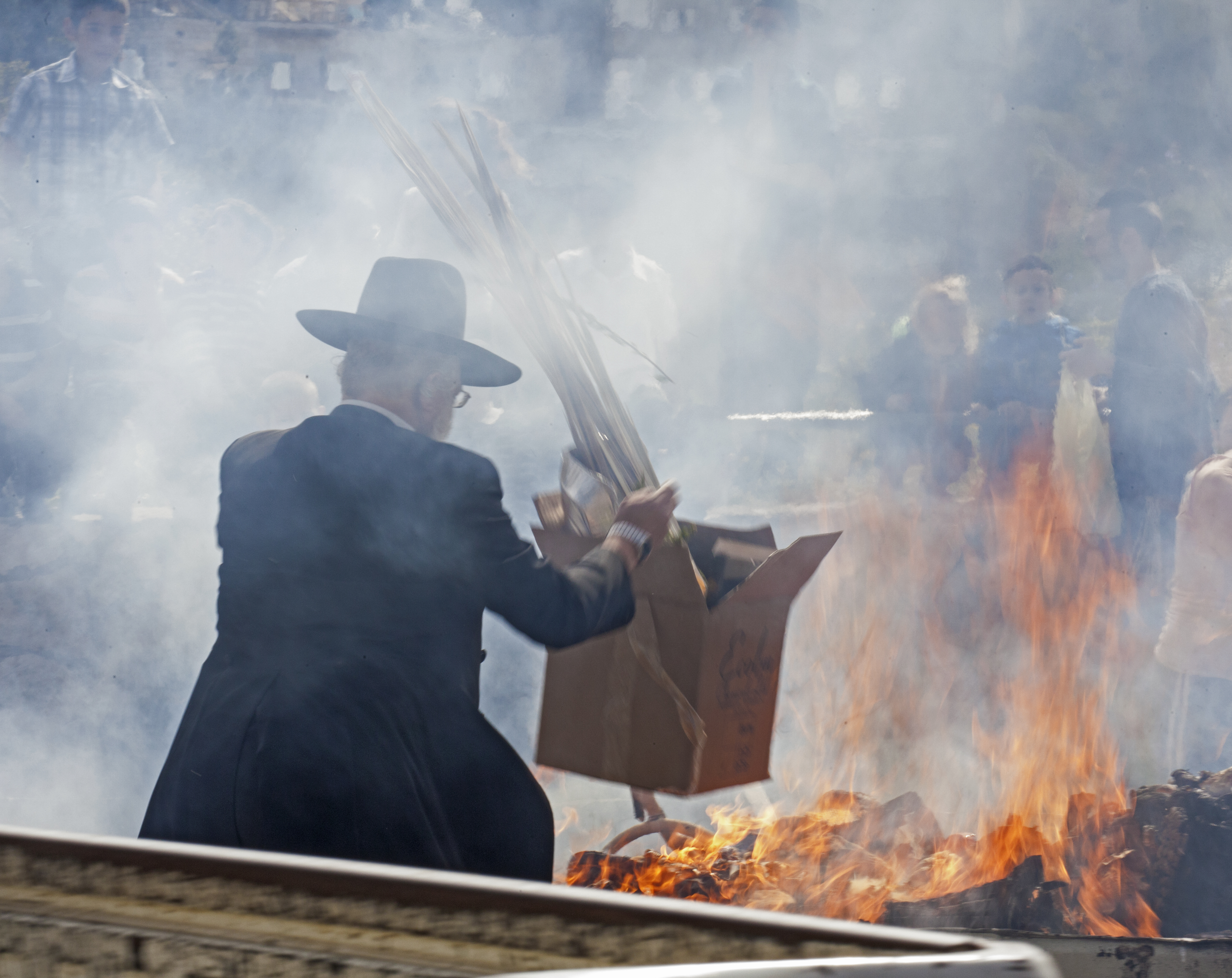 The Burning of the Chametz (5) Chametz Burning Jerusalem